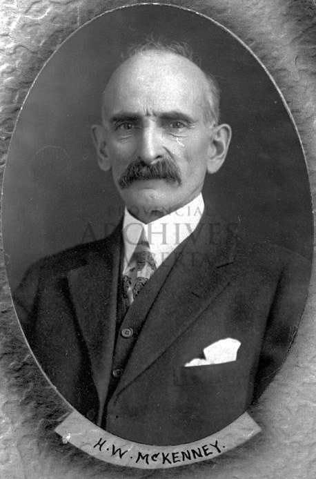 Henry William McKenney, MLA